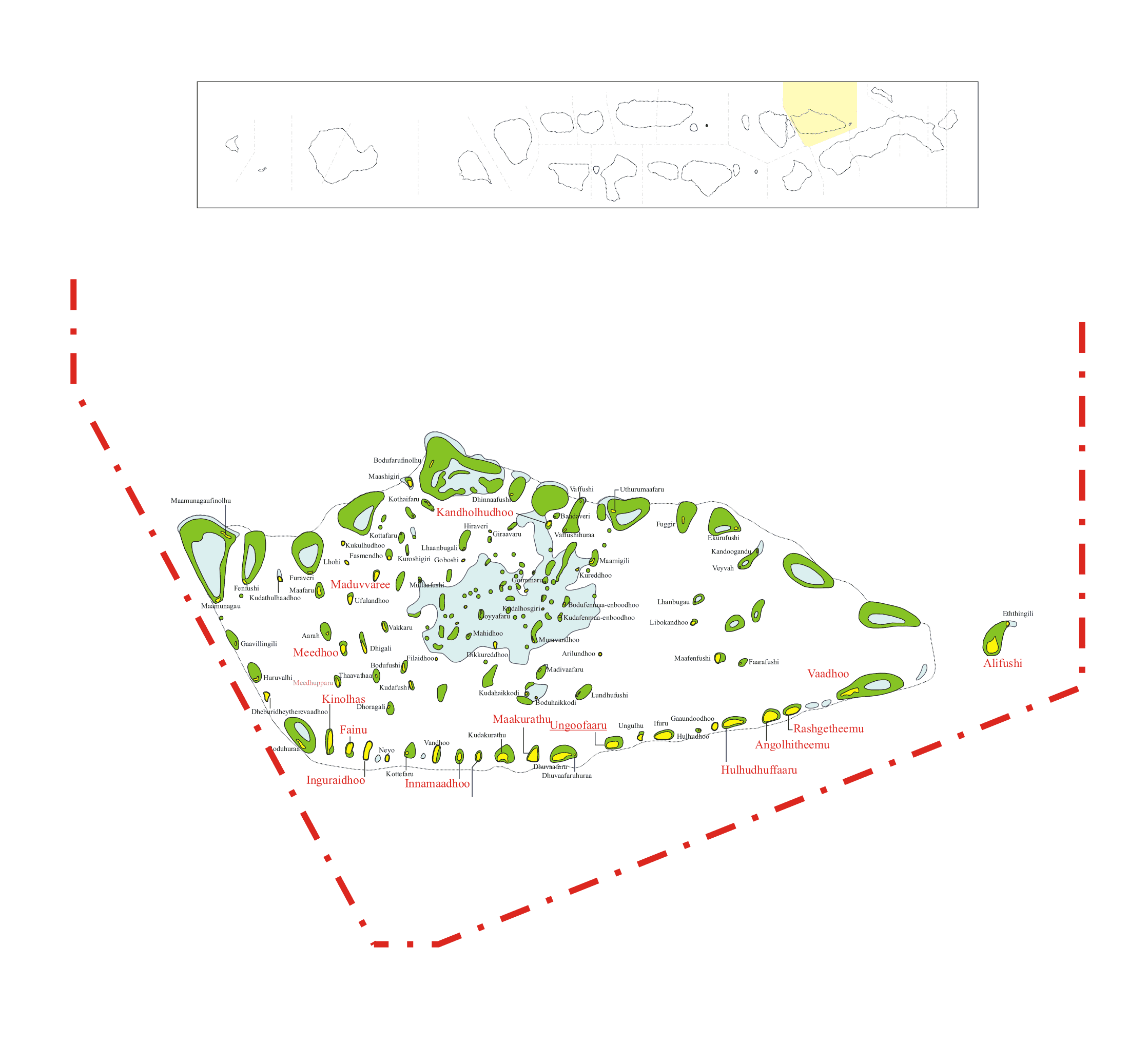 Summary Map of Raa_Atoll, originally vector'ed by Hassan Waheed, Aabaadhuge of Thinadhoo island. Note: This section of map was extracted and its text was Romanized by Oblivious. Special assitance by Waddey and Zuru Converted to PNG by helix84